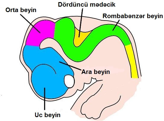 Diagram of the various parts of the brain of a six-week old embryo